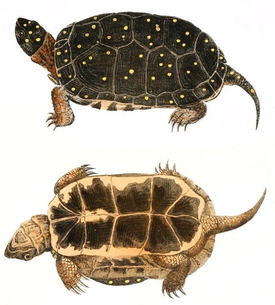 Spotted Turtle, Clemmys guttata, flipped image horizontally